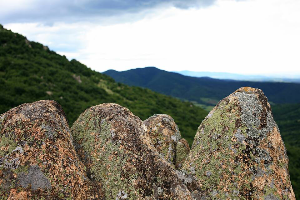 Thracian Sanctuary " lilac rock sanctuary" in Plovdiv Province, Bulgaria